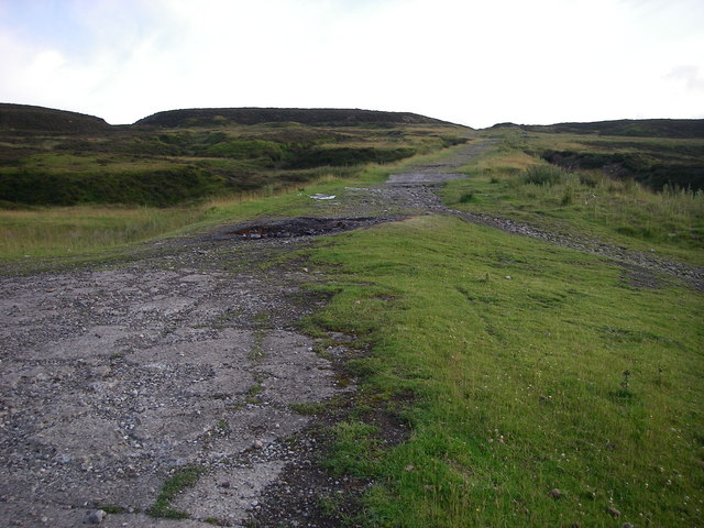 Former Dyne-Steel tramway above Pwll-du Now a bridleway, this route ascends SW to the crest of Cefn Garnyrerw before heading down again to Garn-yr-erw. Built in the 1850's it replaced the earlier Pwll-du tunnel which ran for a mile under the mountain. There's more information on this whole extraordinary landscape at